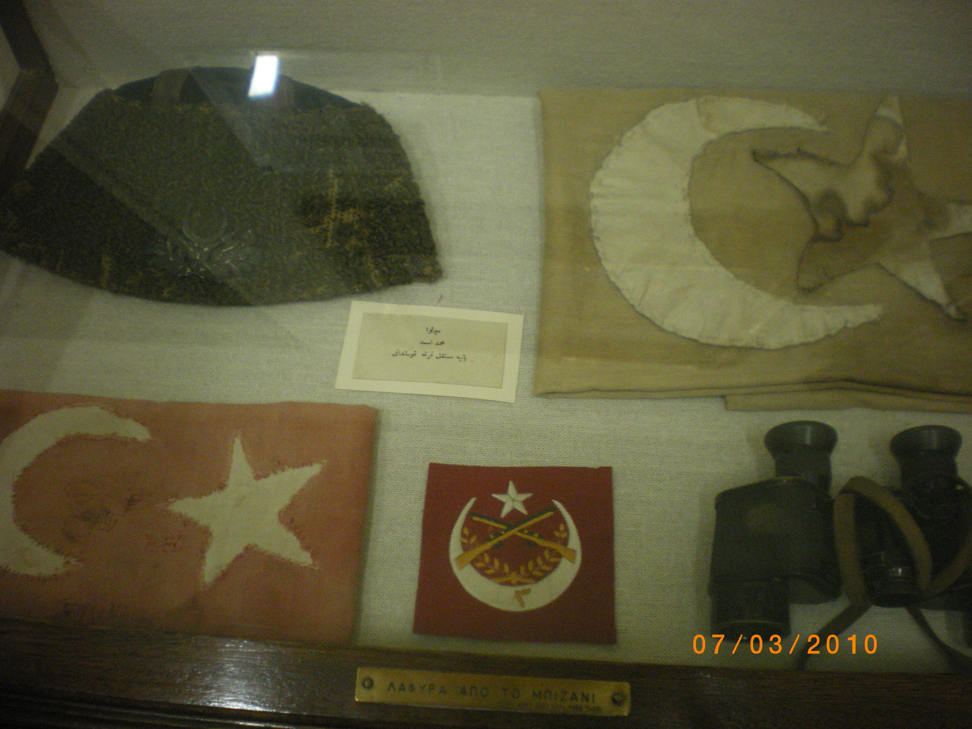 War trophies of the Greek Army during the battle of Bizani.